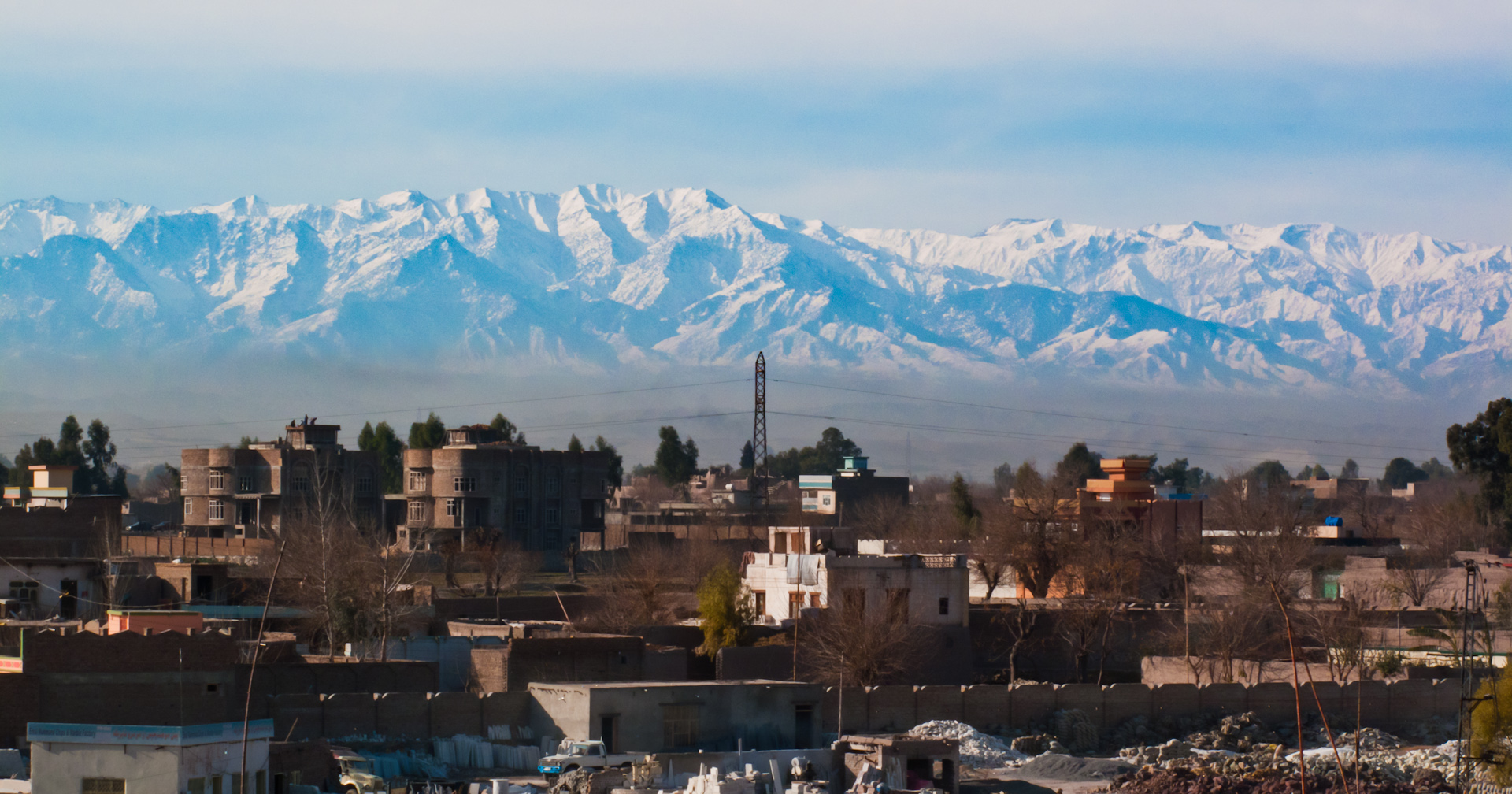 The White Mountains. A view south from the deck of the Taj Mahal Guest House.